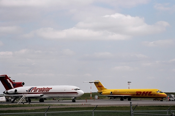 Apron VII at the Calgary International Airport.